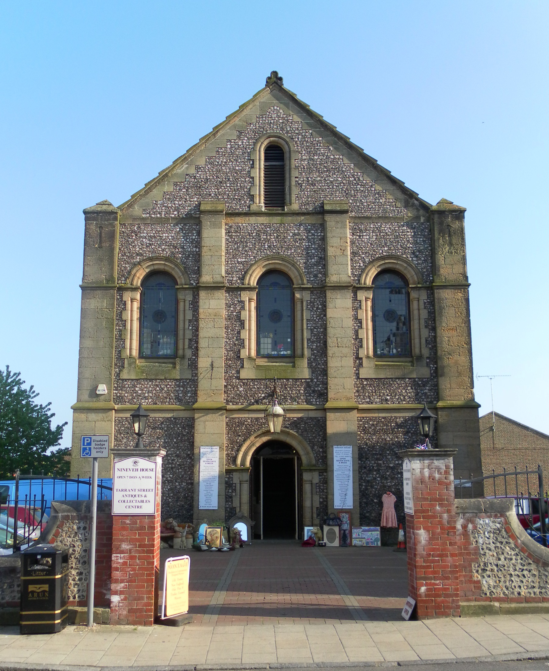 Former Trinity Congregational Chapel, Tarrant Street, Arundel, Arun District, West Sussex, England. Now an antiques market under the name Nineveh House. Listed at Grade II by English Heritage (NHLE Code 1277924)